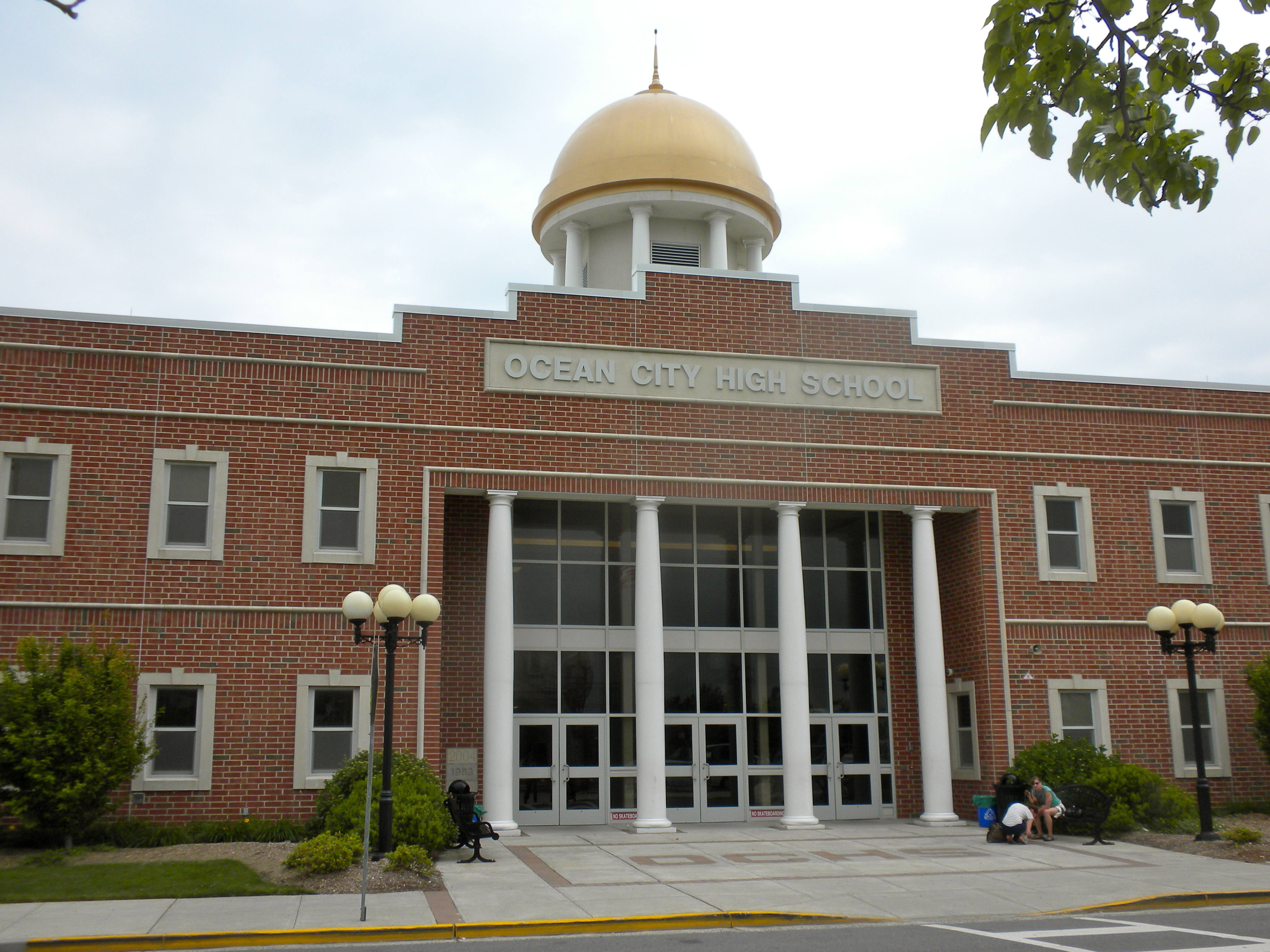 Ocean City High School, in Ocean City, New Jersey, USA. On Atlantic Ave, between 5th and 6th. (east side). Across the street are tennis courts and the entrance to the now torn down old Ocean City HS.